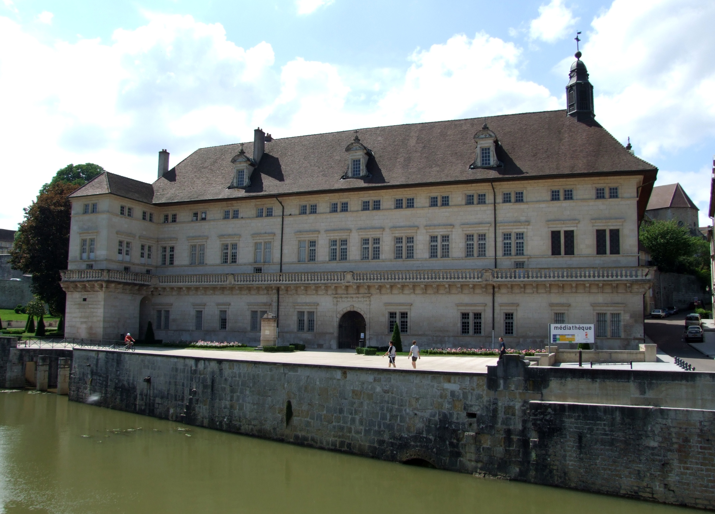 Dole, Jura, FRANCE